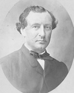 Hidde Justuszn Halbertsma (1820-1865), medical professor Leiden University